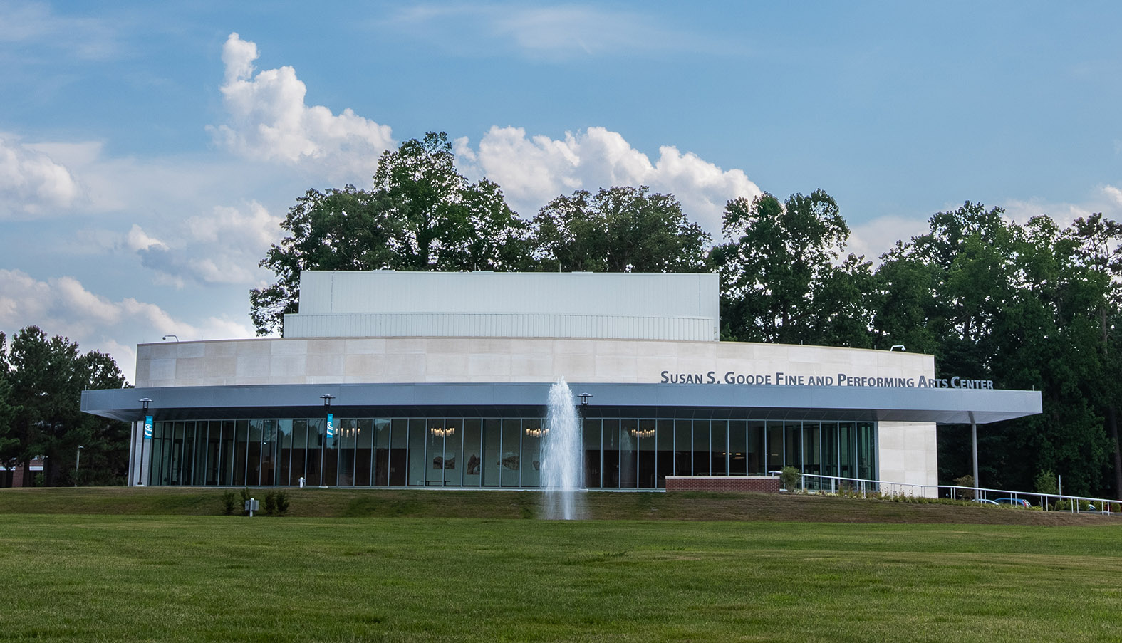 The Susan S. Goode Fine and Performing Arts Center at Virginia Wesleyan University.